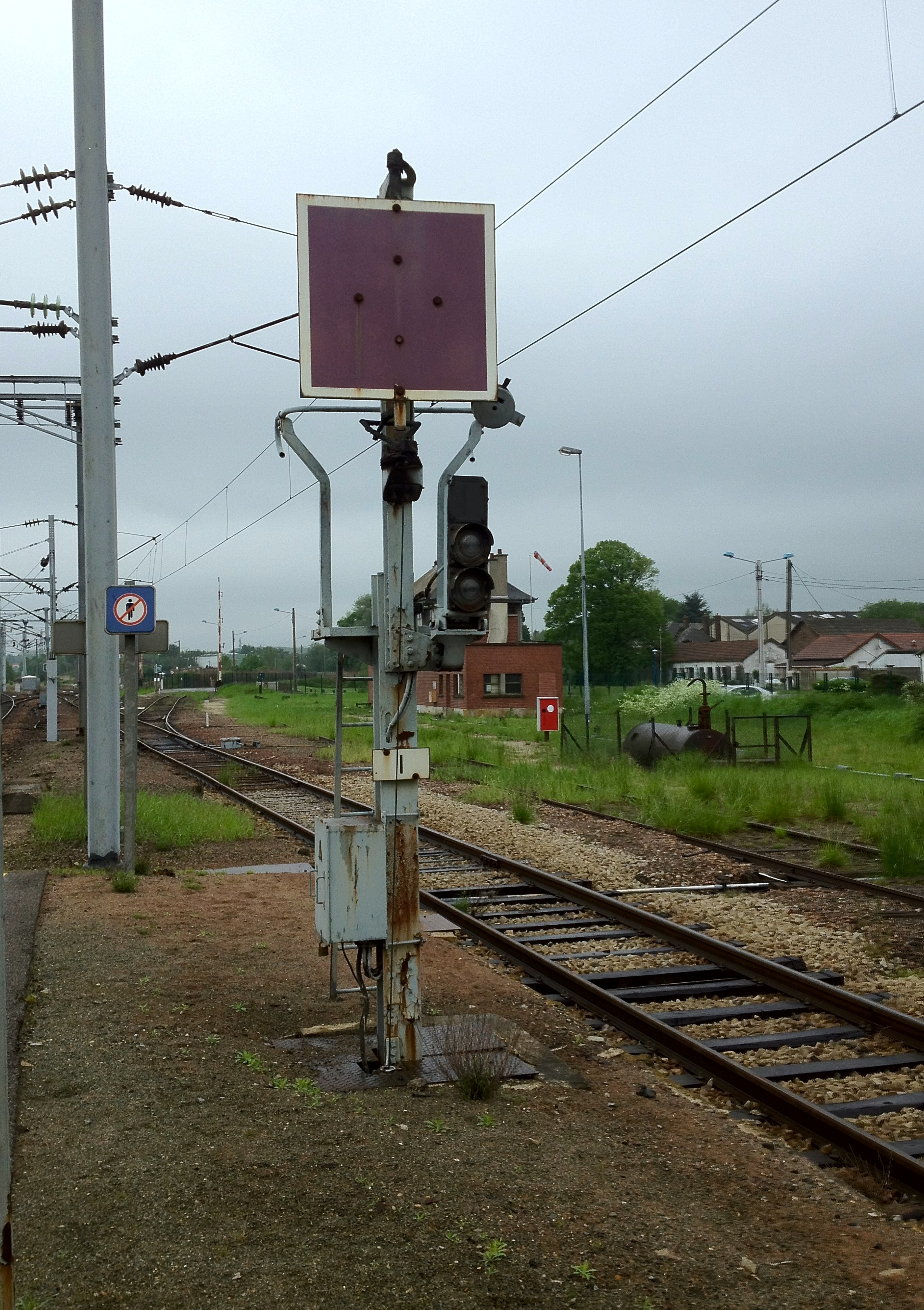 Railway stop signal